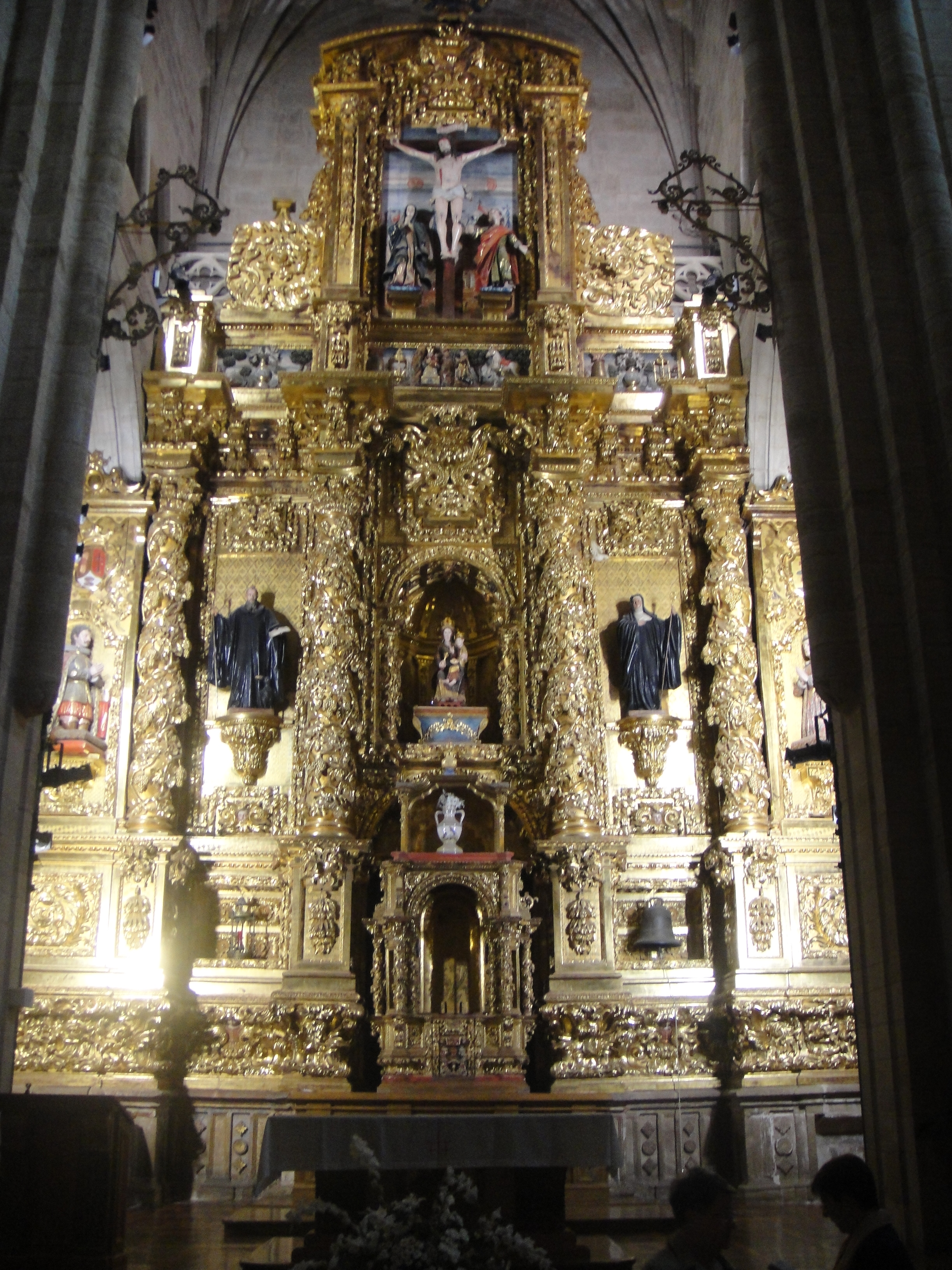 Church of monastery of Santa Maria la Real of Nájera, Spain.